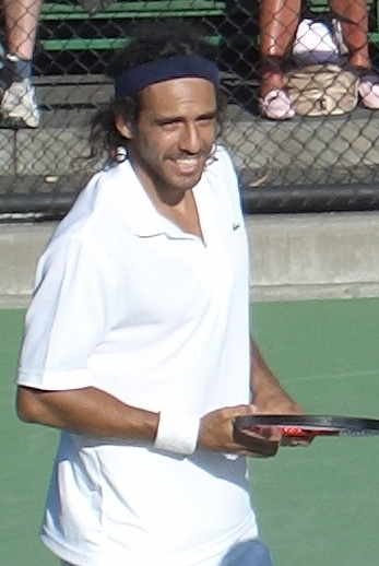 Mariano Zabaleta (left) and Carlos Moya during their doubles match at the 2006 Australian Open.